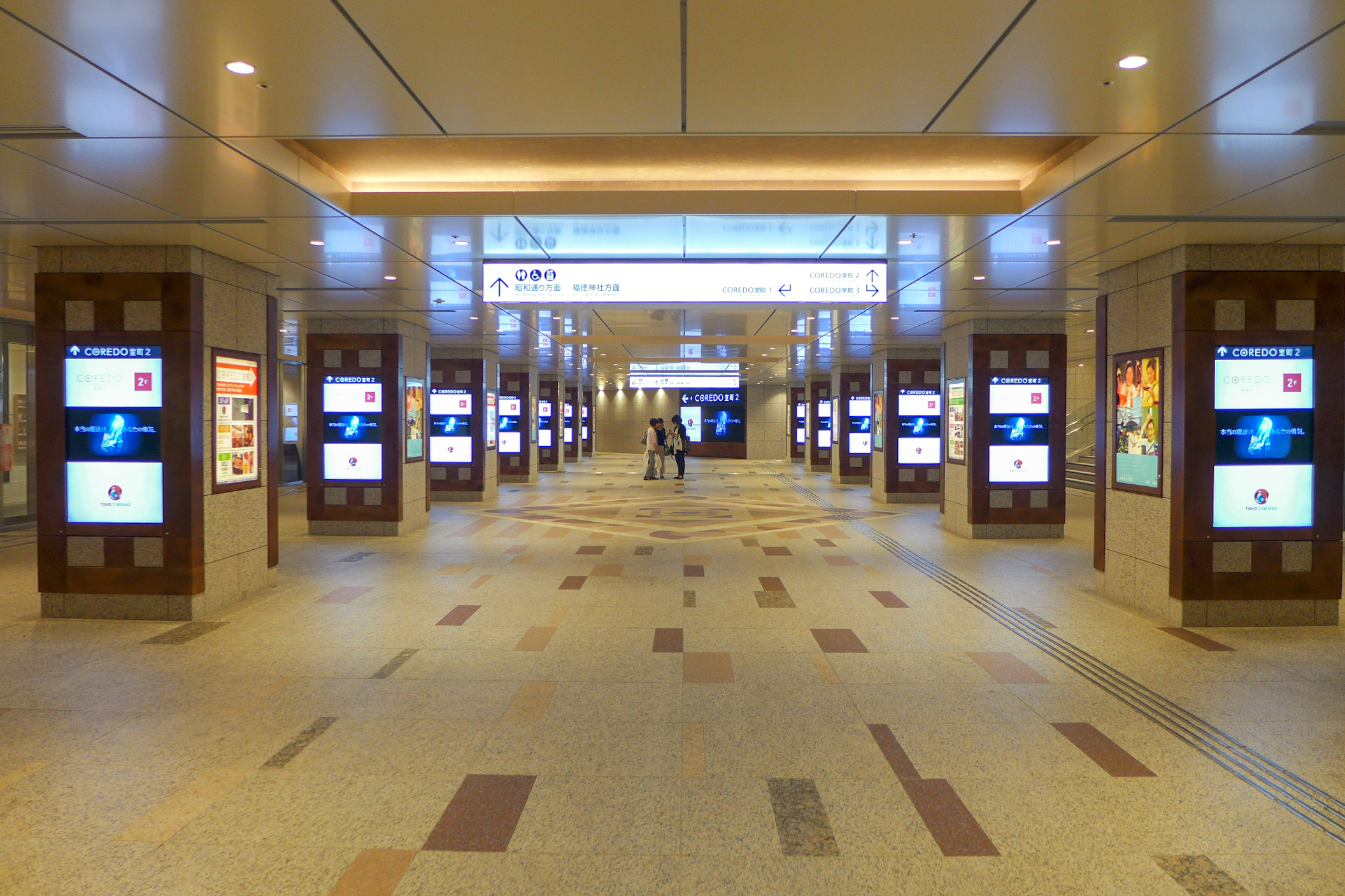 Mitsukoshimae Station Underground access